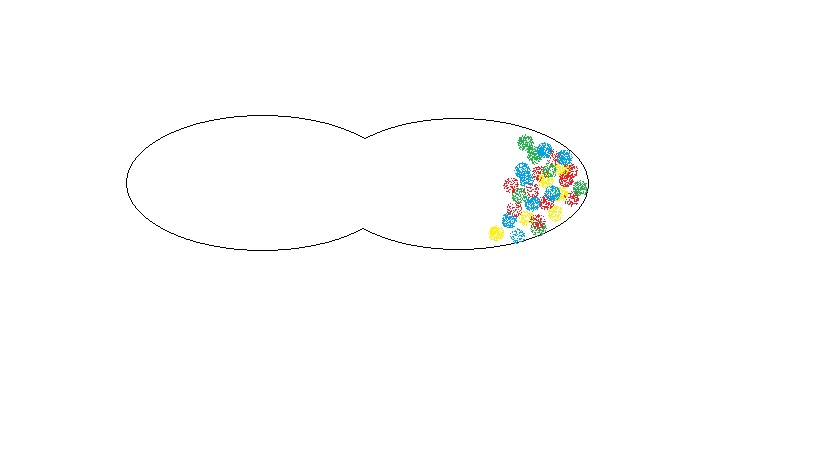 zraková epileptická aura